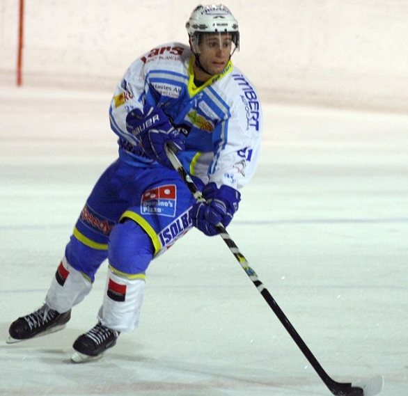 Sean Roche, Canadian ice hockey player